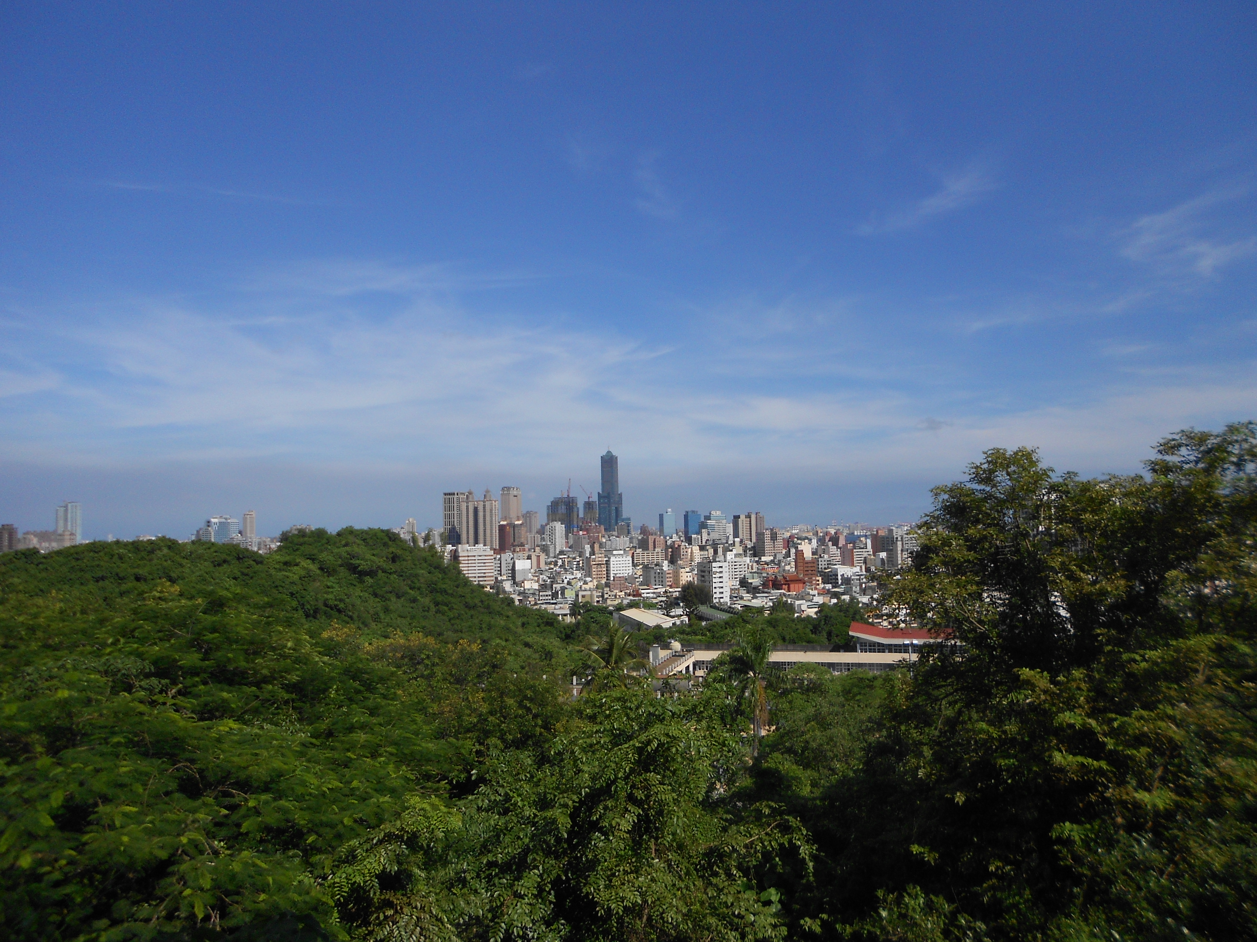 Kaohsiung_Shoushan